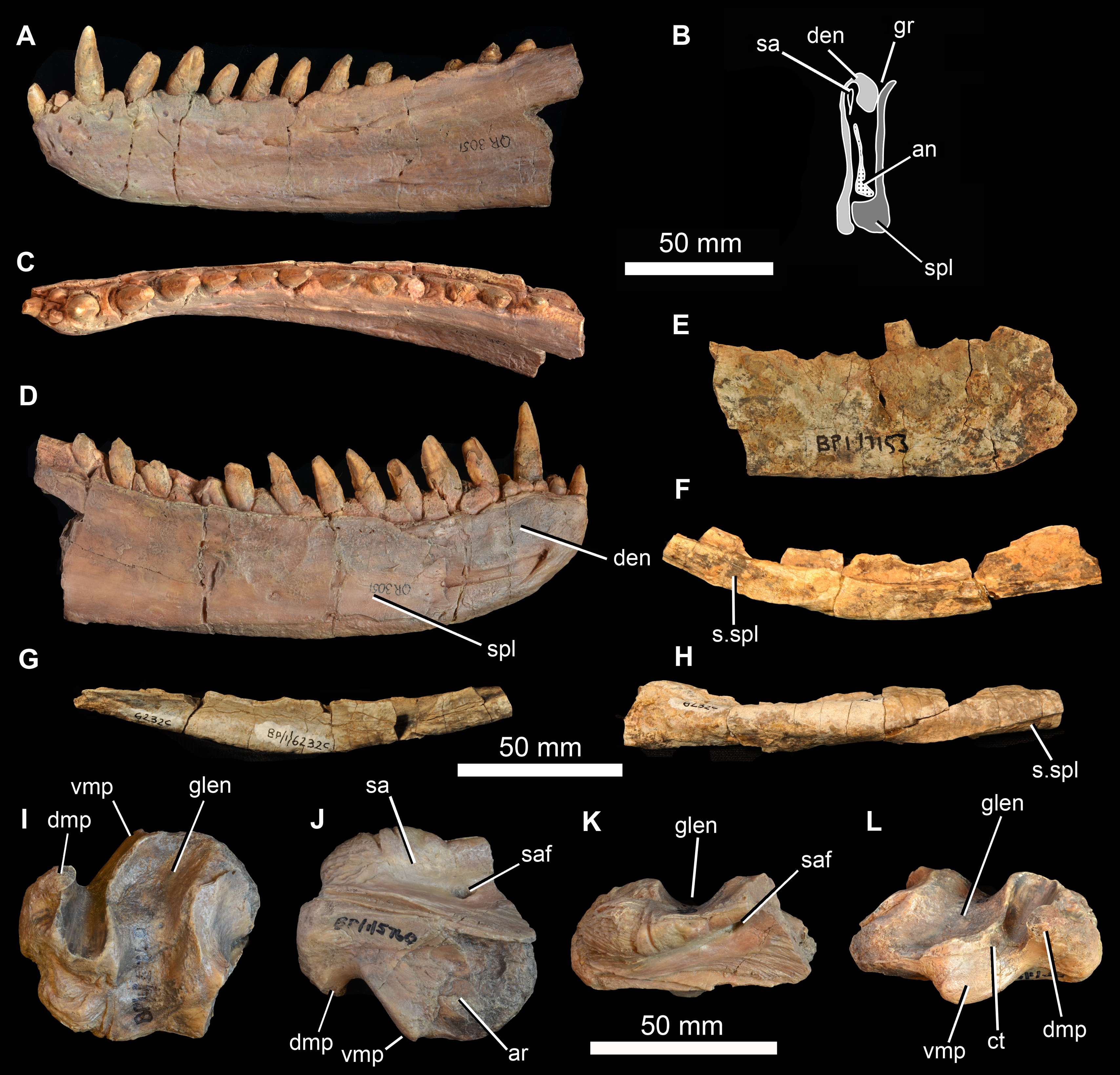 Mandible of Garjainia madiba sp. nov. A–D, cast of anterior part of left mandible of NMQR 3051 in lateral (A), posterior (B), dorsal (C) and medial (D) views. E, lateral view of anterior part of right dentary, BP/1/7153; F–H, right angular, BP/1/6232c in medial (F), lateral (G) and ventral (H) views. I–L, cast of right articular and posterior part of surangular, BP/1/5763b (contra handwritten label on cast) in dorsal and slightly lateral (I), ventral and slightly medial (J), lateral and slightly ventral (K) and medial and slightly posterodorsal (L) views. Abbreviations: an, angular; ar, articular; den, dentary; dmp, dorsomedial process of retroarticular region; glen, glenoid; gr, groove possibly for articulation with coronoid; sa, surangular; saf, surangular foramen; spl, splenial; s.spl, surface for articulation with splenial; vmp, ventromedial process of articular.